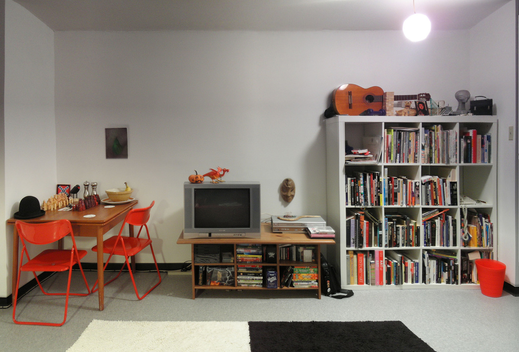 Apartment living room in Toronto, Canada.